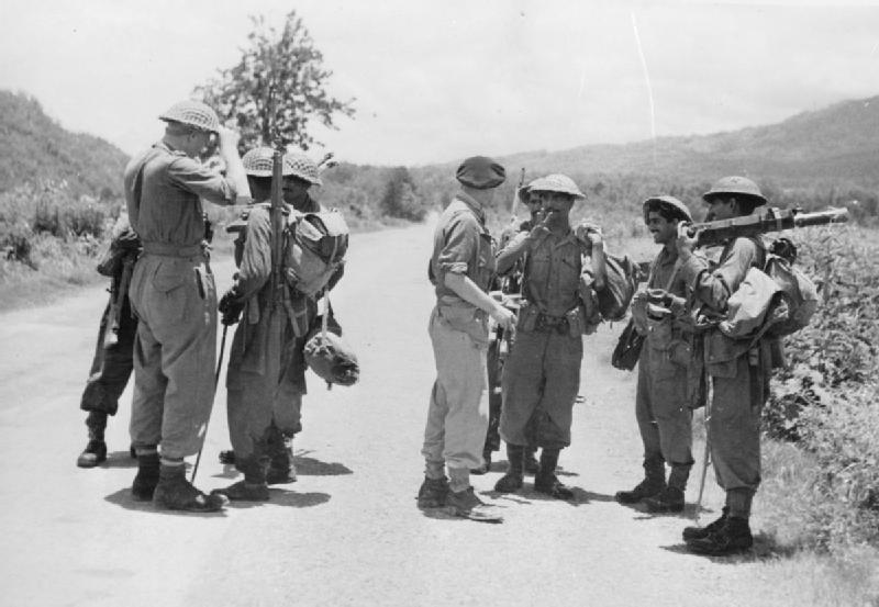 The War in the Far East- the Burma Campaign 1941-1945 The Battle of Imphal-Kohima March - July 1944: The link-up at Milestone 109 between the two arms of the 14th Army which relieved the Japanese siege of Imphal.